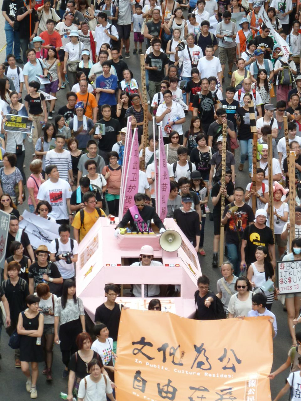 Kacey Wong during the 2012 Hong Kong 1 July march